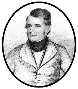 Picture of Joseph Ripley Chandler.